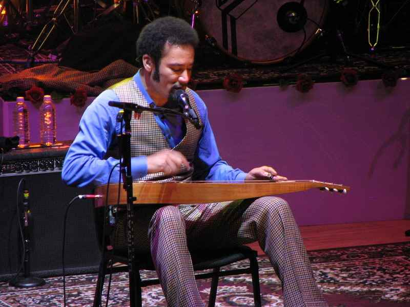 Ben harper